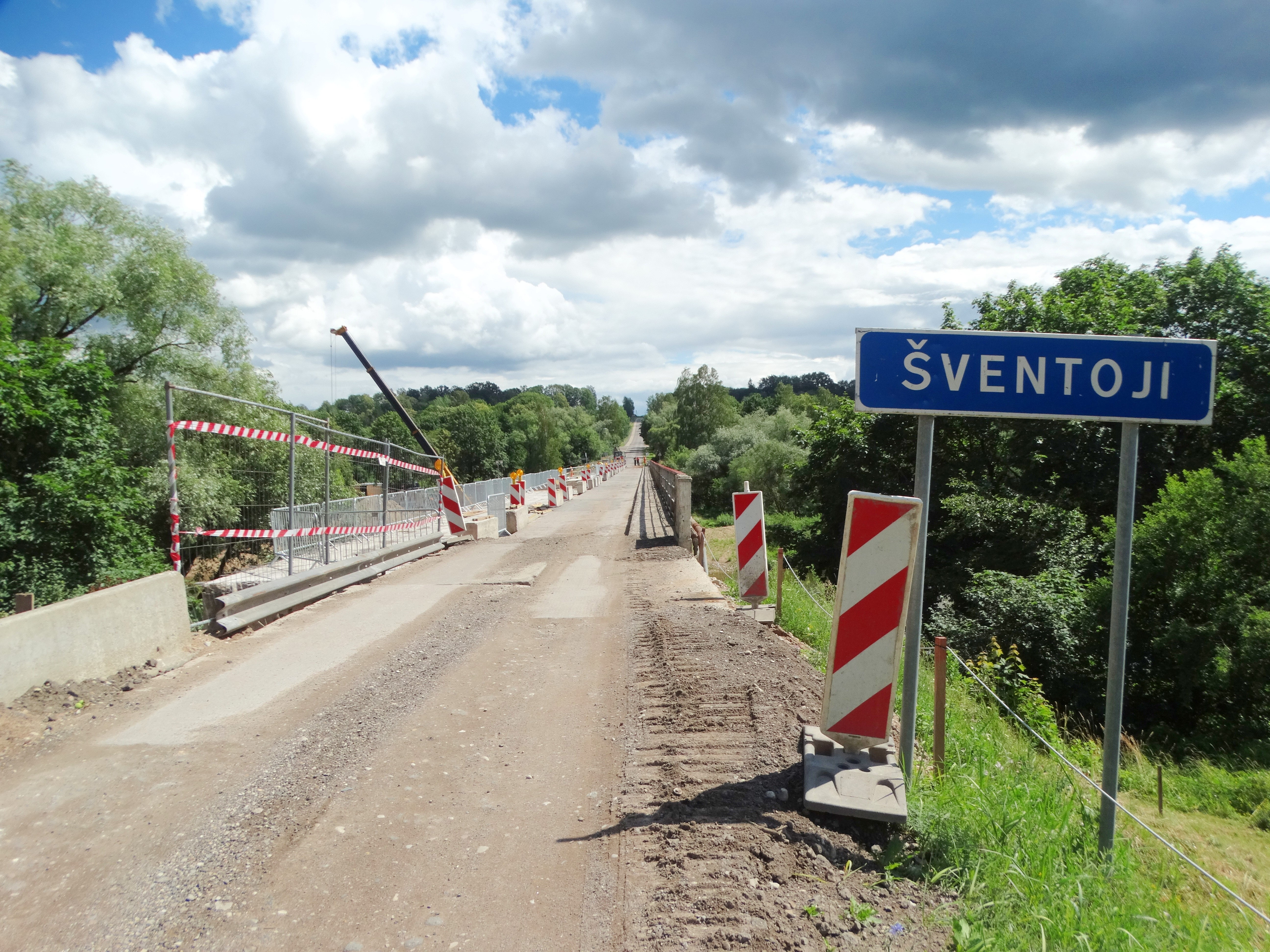 Upninkai bridge over the Šventoji River, Jonava district, Lithuania